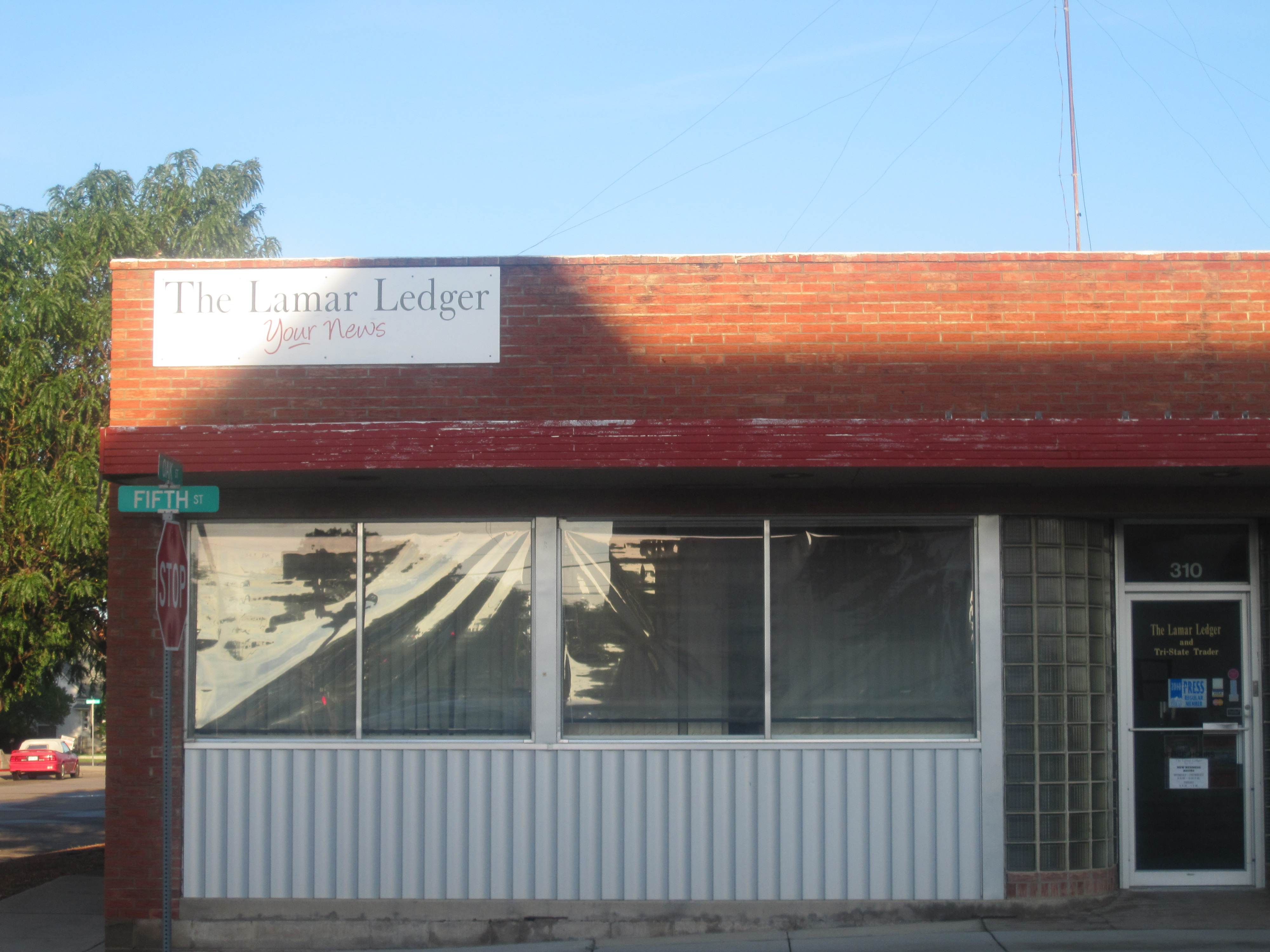 I took photo with Canon camera in Lamar, CO.